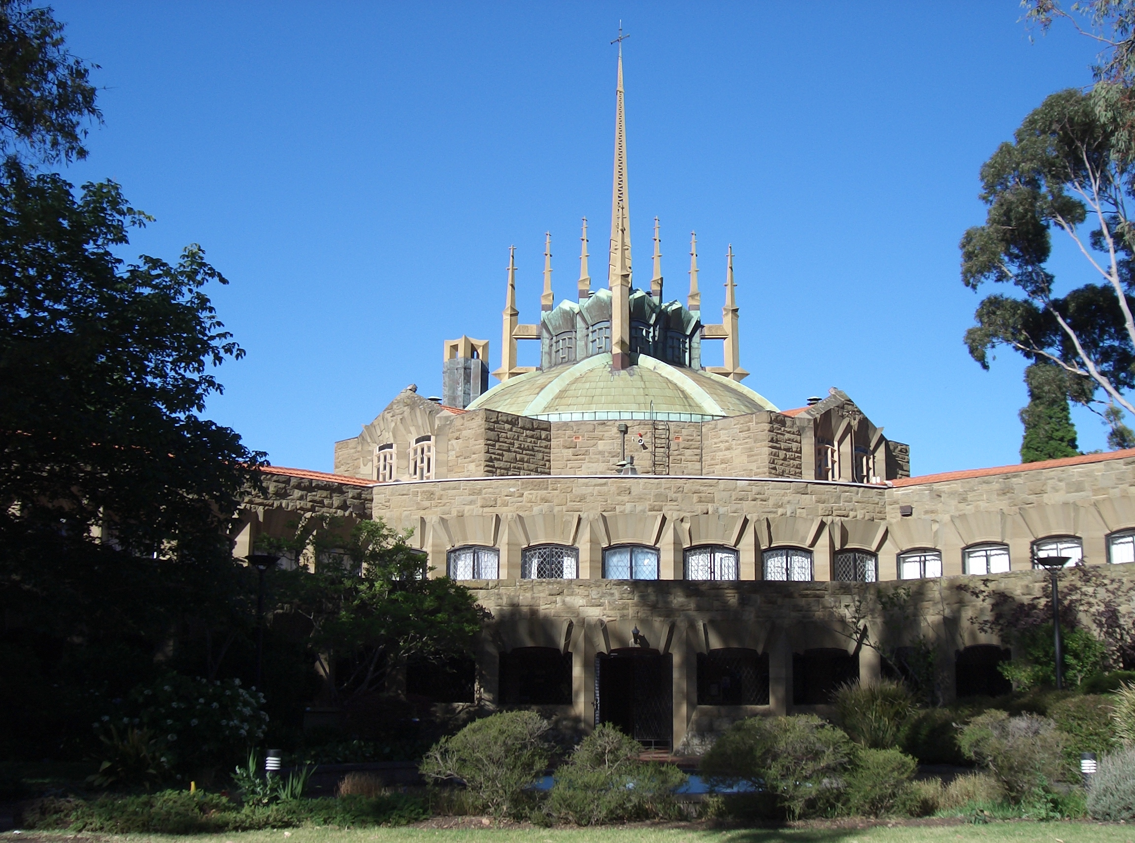 The dome of the Dining building in Newman College, University of Melbourne, as seen from the courtyard.